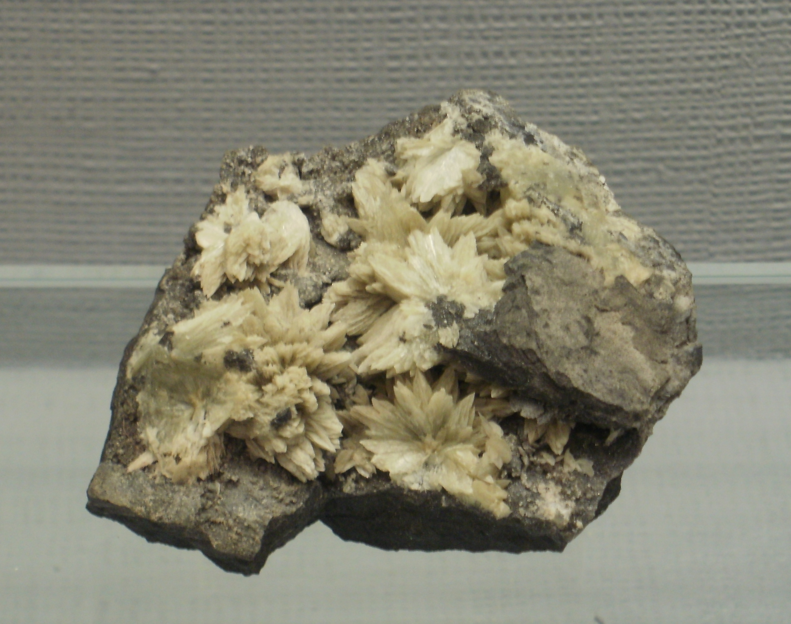 Collinsite from the Rapid Creek area of northern Yukon, Canada. Held in the A. E. Seaman Mineral Museum.